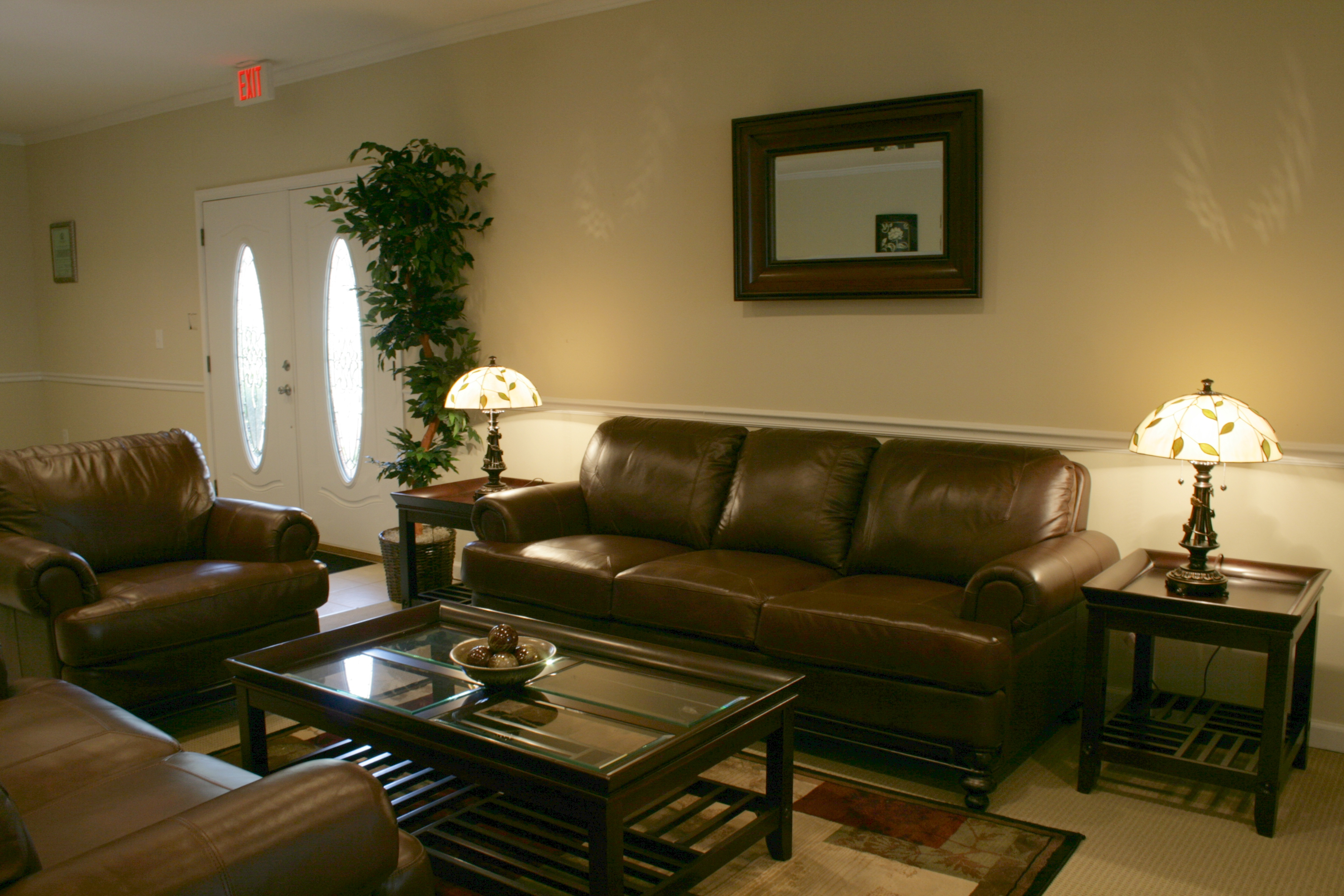 Comfortable seating inside the lobby of the main office building at Hampton Forest Apartment Homes at 901 Chalk Level Road in Durham, North Carolina.